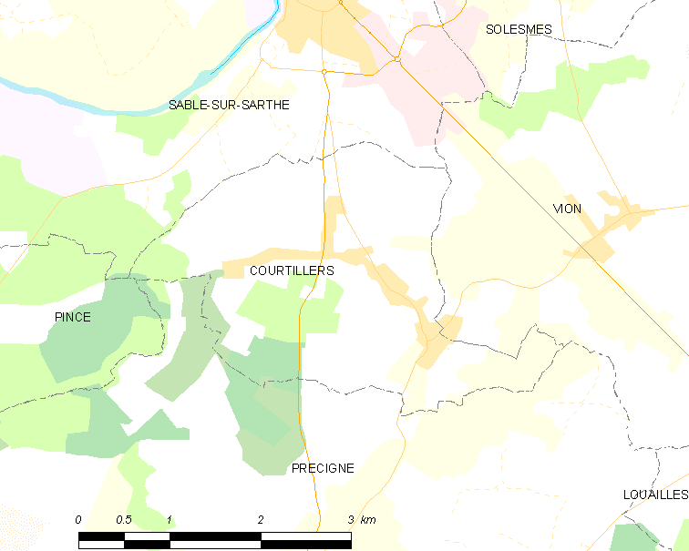 Map of French municipality